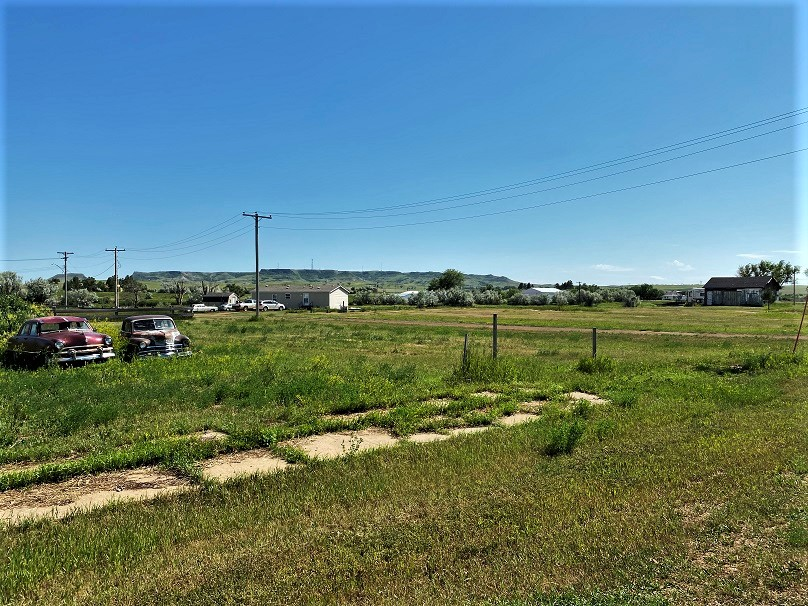 Sentinel Butte Public School This is a view of most of Byron Street; there are no sizable historic structures on the length of the street.